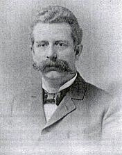 Jackson Showalter (1860-1935), five-time US Chess Champion